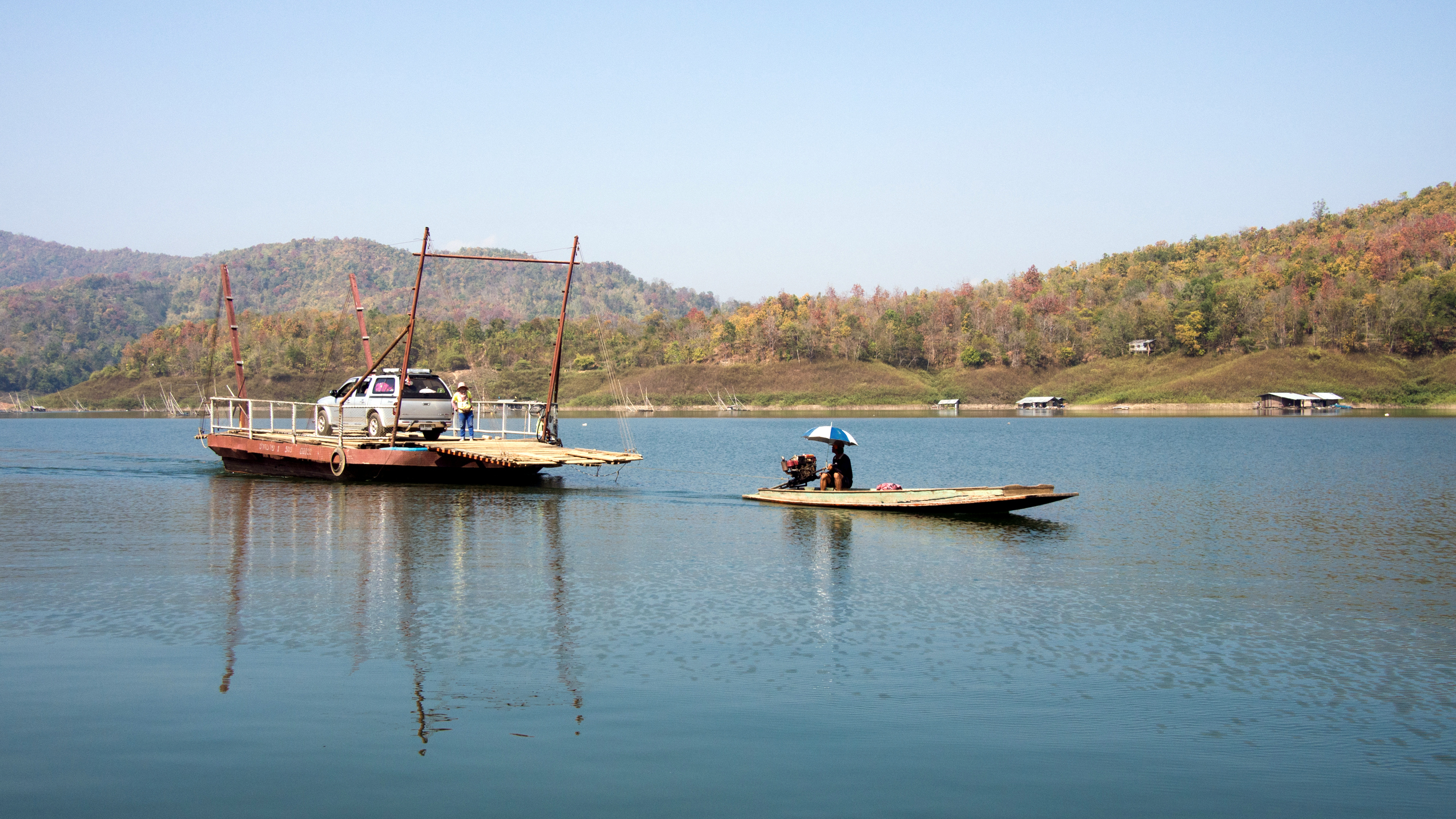 The ferry, actually a large raft pulled by a longtail boat, across the reservoir created by the Sirikit Dam across the Nan river. The view is towards the north.